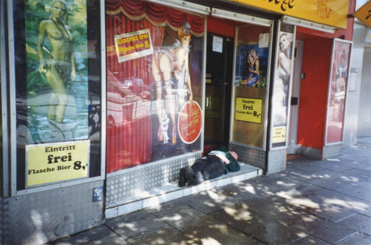 Enterance free